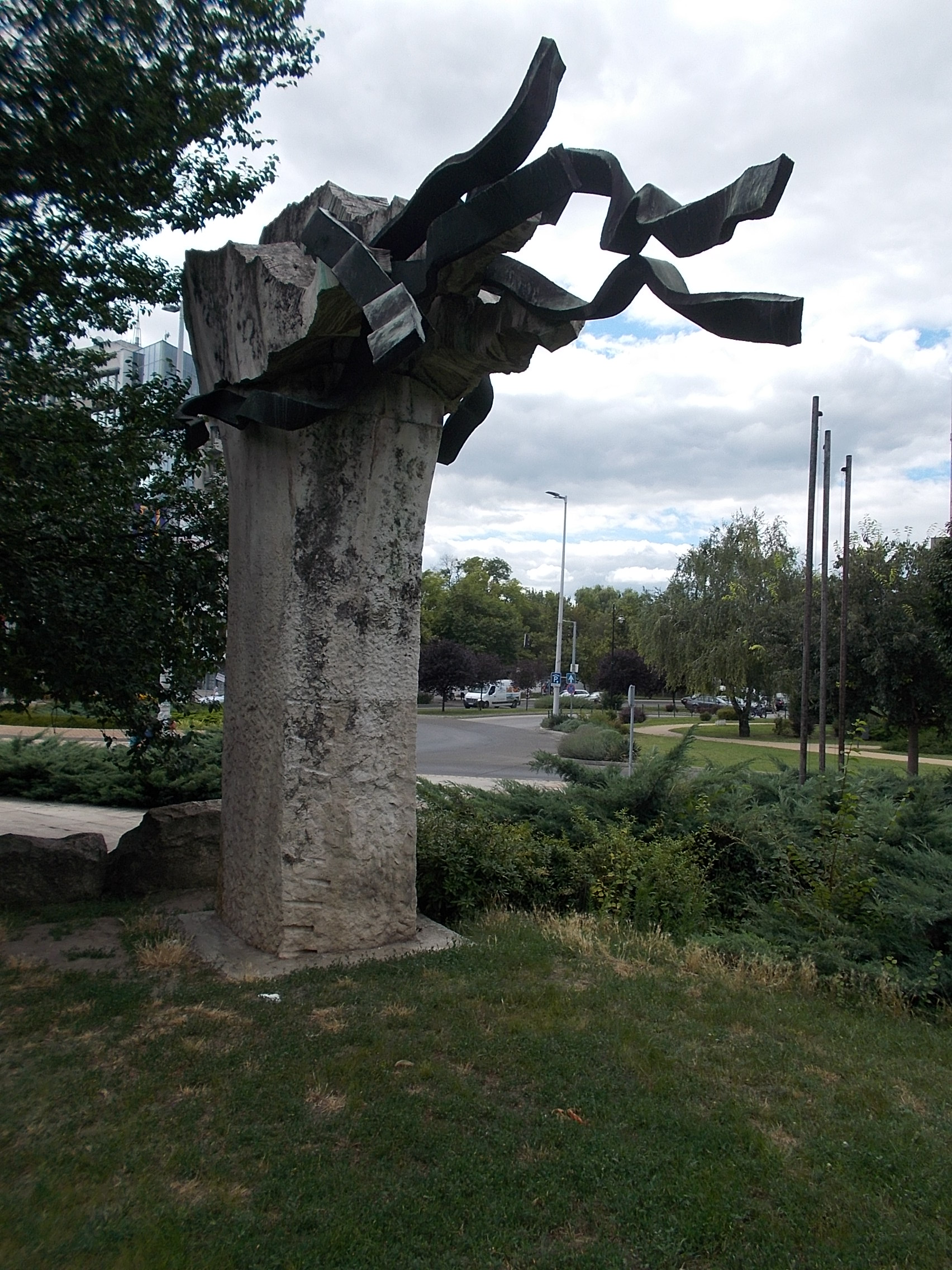 Three Spring memorial by Gyula Illés refers to the Hungarian Soviet Republic, Hungarian Revolution of 1848 and World War II memorial- Deák Ferenc Sq., Belváros, Kecskemét, Bács-Kiskun County, Hungary.